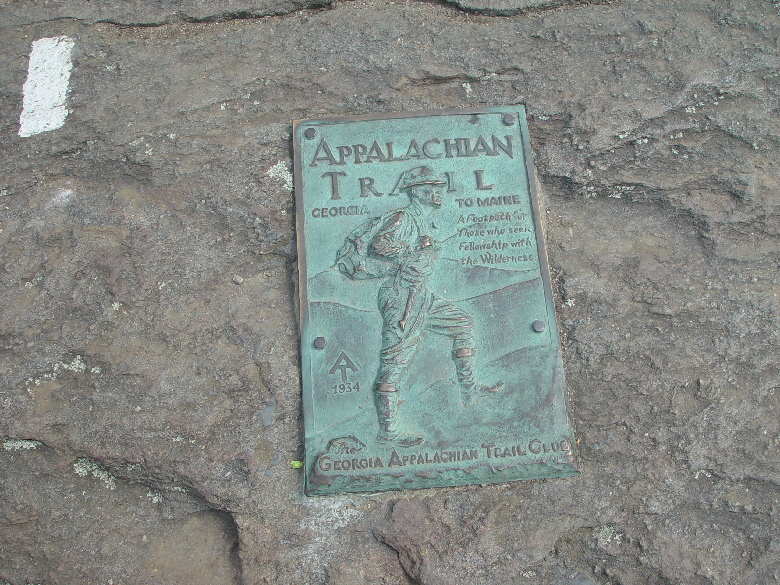 Georgia Appalachian Trail Club Marker on Springer Mountain, Georgia, March 20, 2004